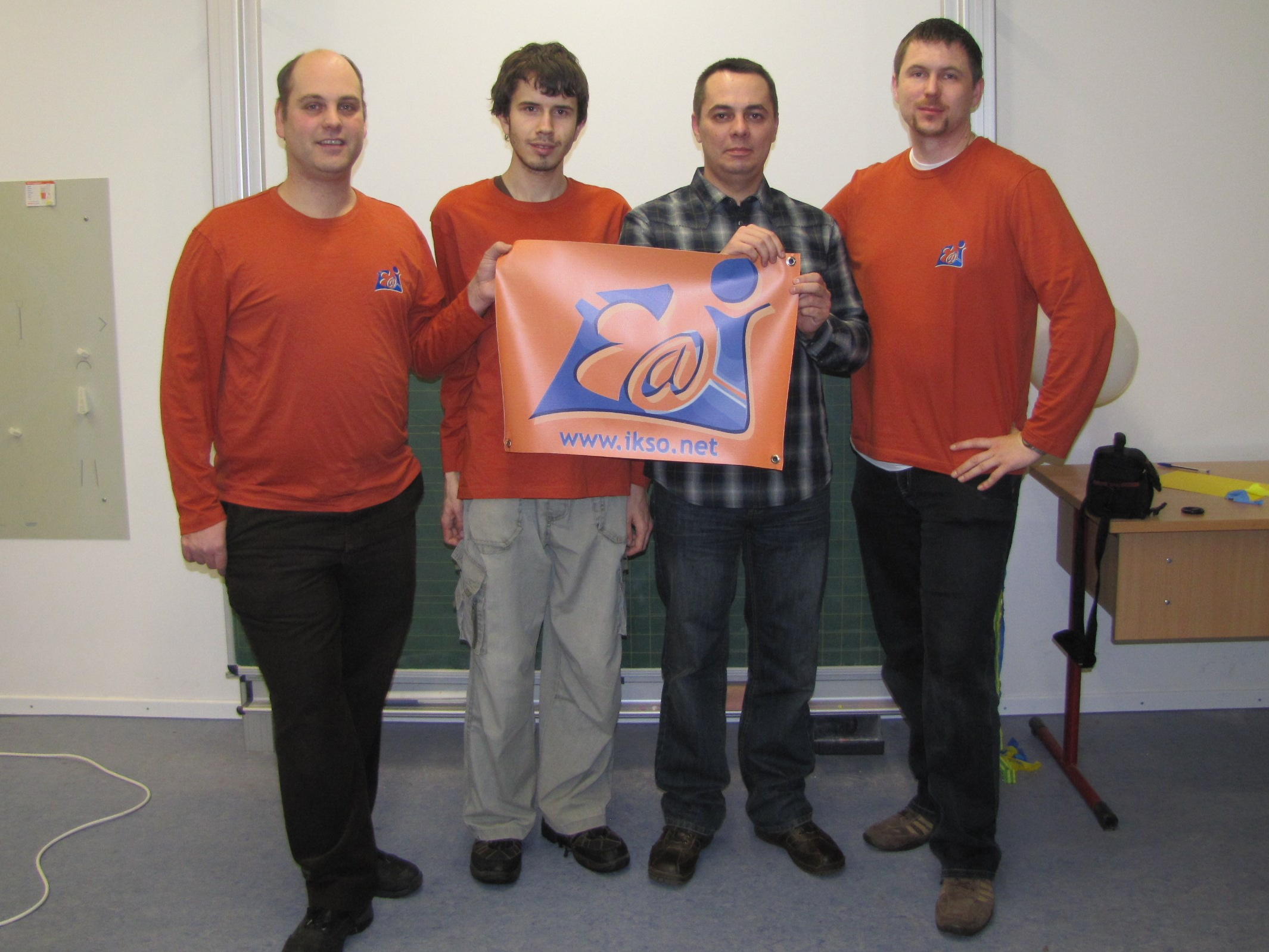 Board members of E@I in Burg during the Junulara E-Semajno convention of 2010/2011.